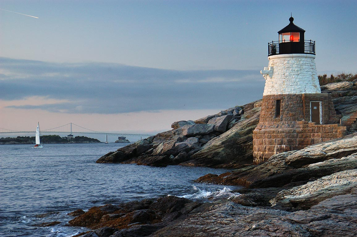 Castle Hill Lighthouse, Newport, RI